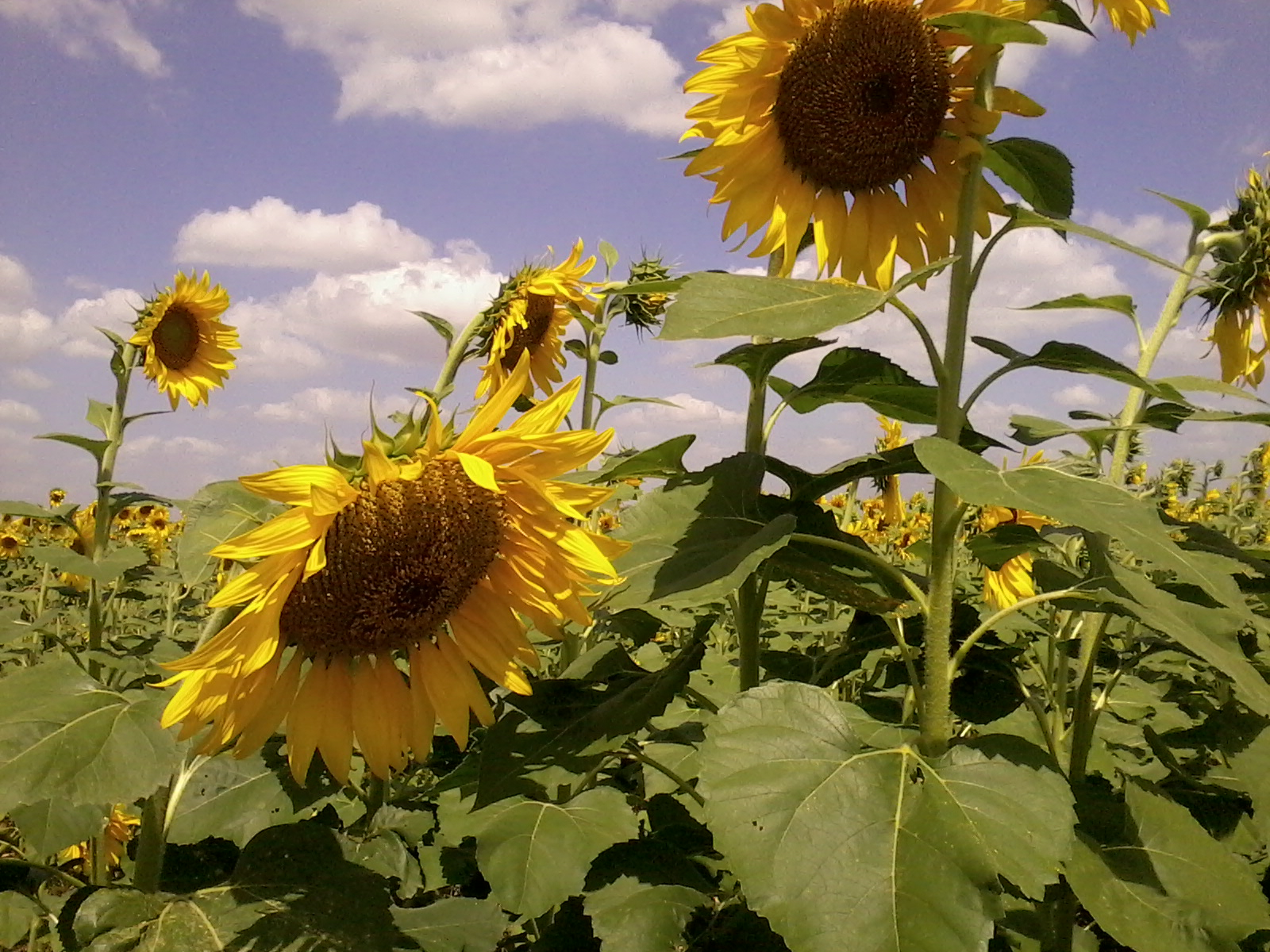 CULTIVOS DE FLOR DE GIRASOL EN EL MUNICIPIO TUREN DEL ESTADO PORTUGUESA